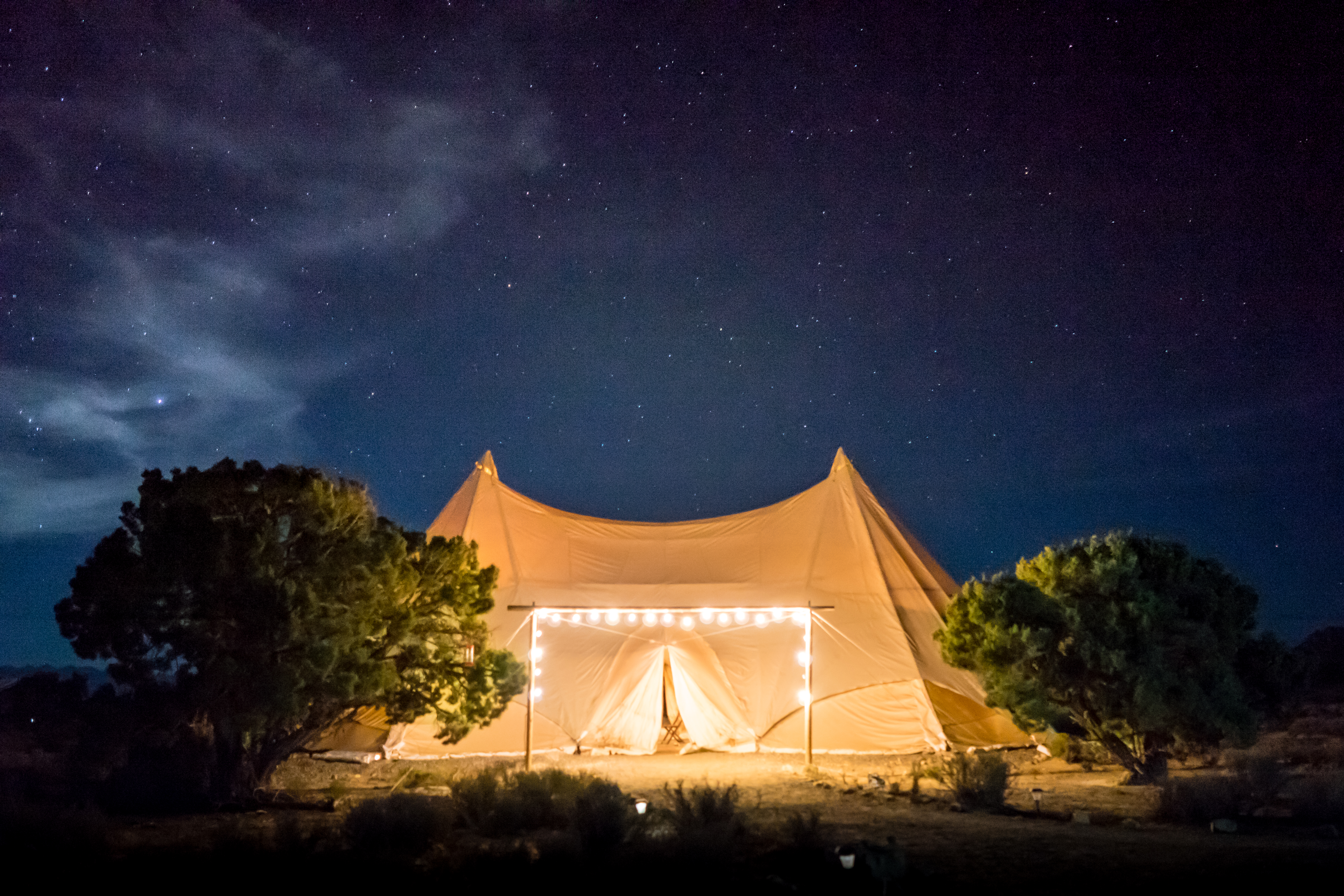 Cindy Chen 2016-11-10